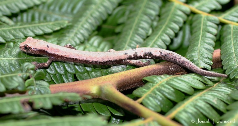 Bolitoglossa conanti